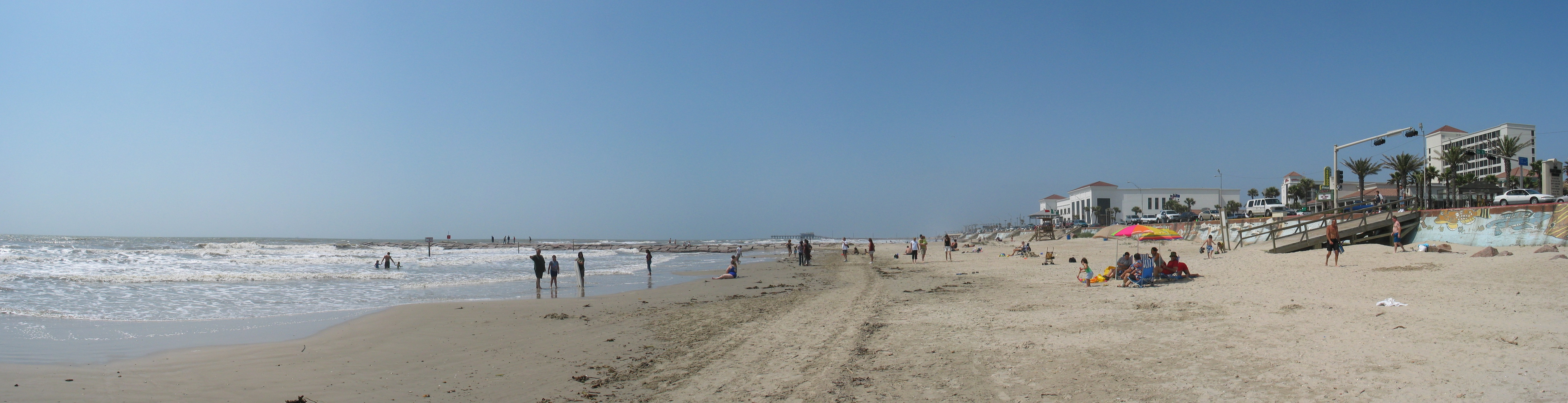 Galveston Beach Pano.